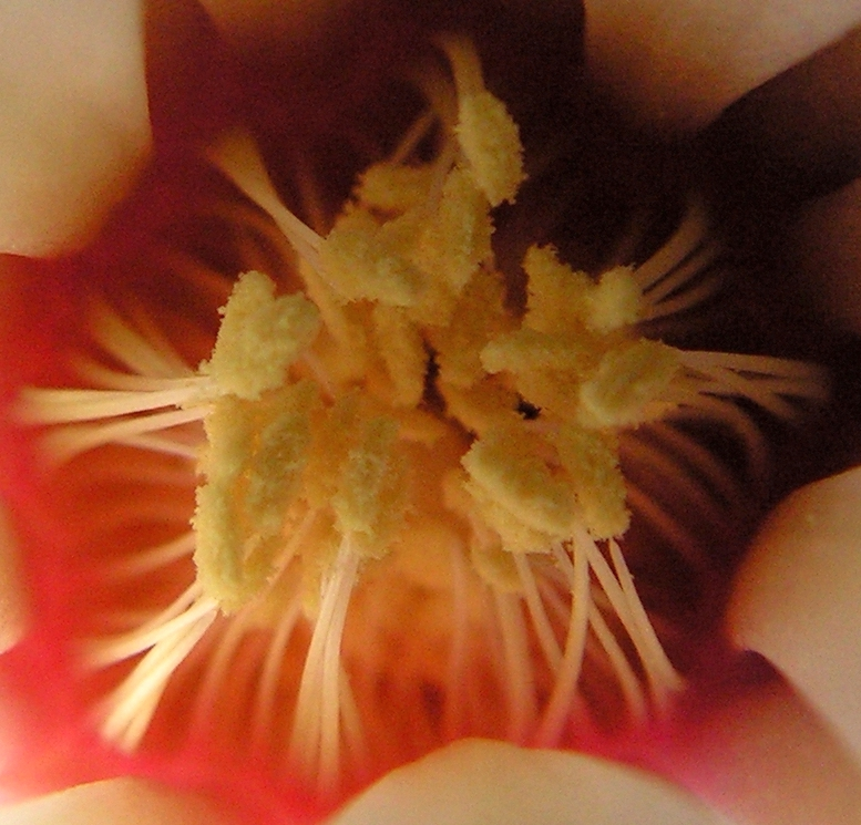 The flower of Gymnocalycium stellatum.